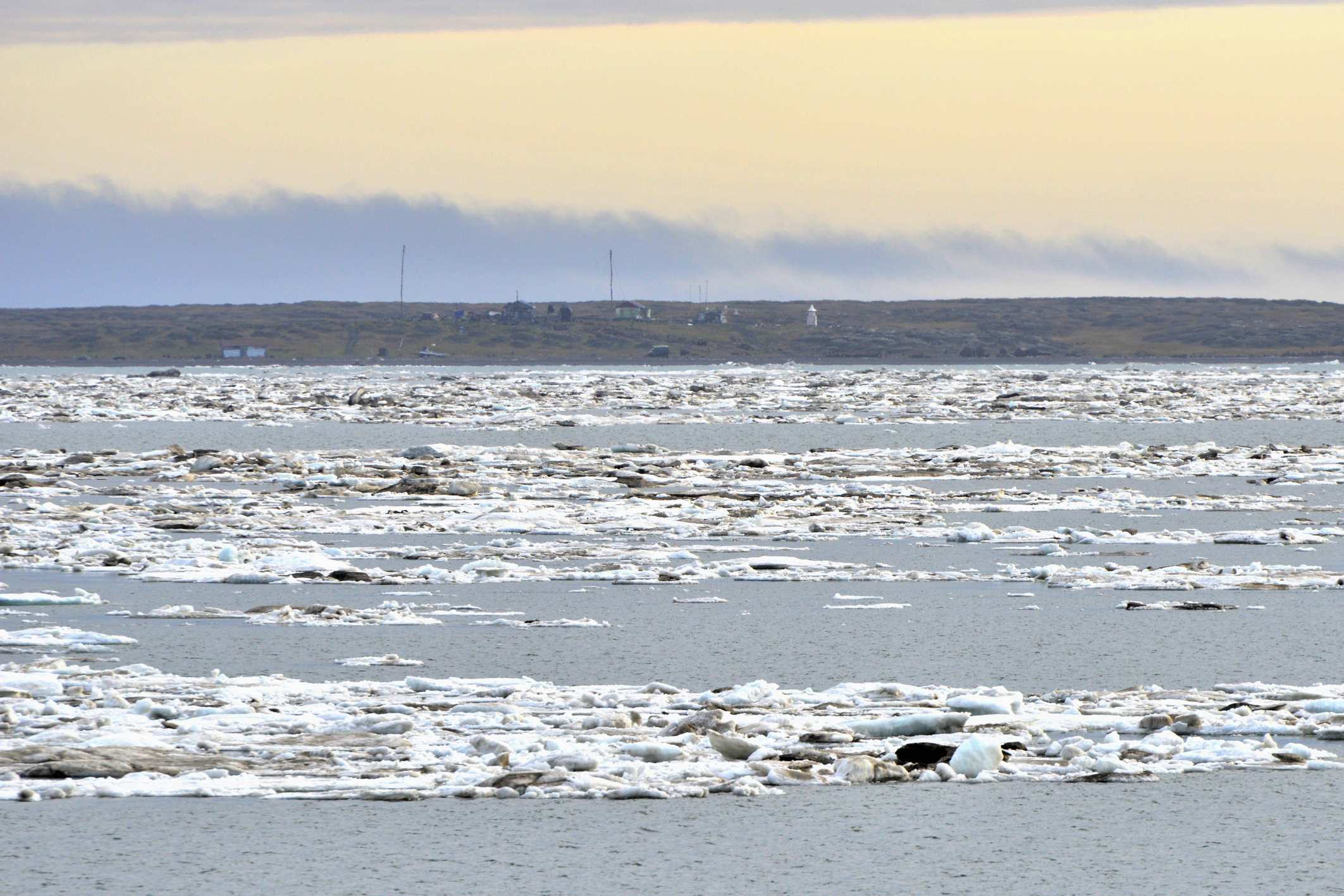 Kotelny Island (Anzhu Islands - New Siberian Islands, Russia; 74°38’N, 139°10’E); polar station Sannikov